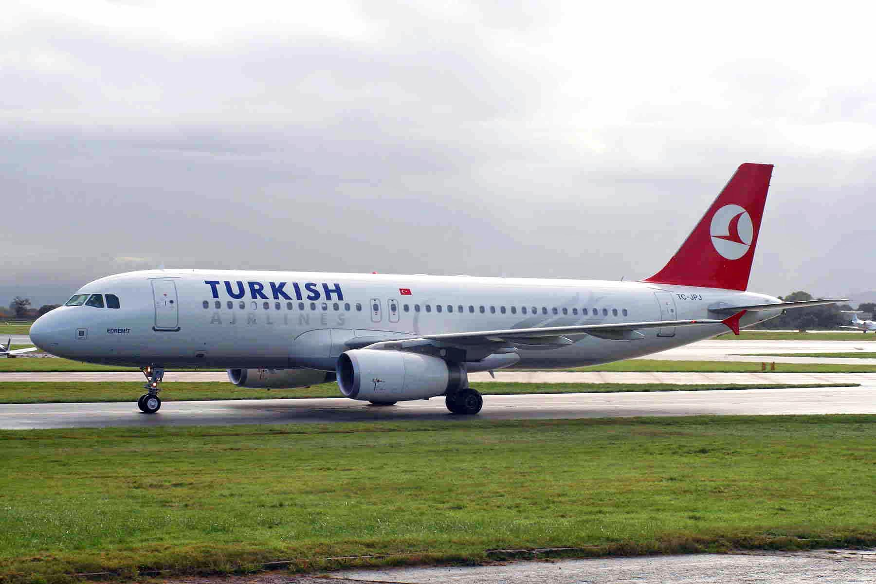 TC-JPJ at Manchester Airport.